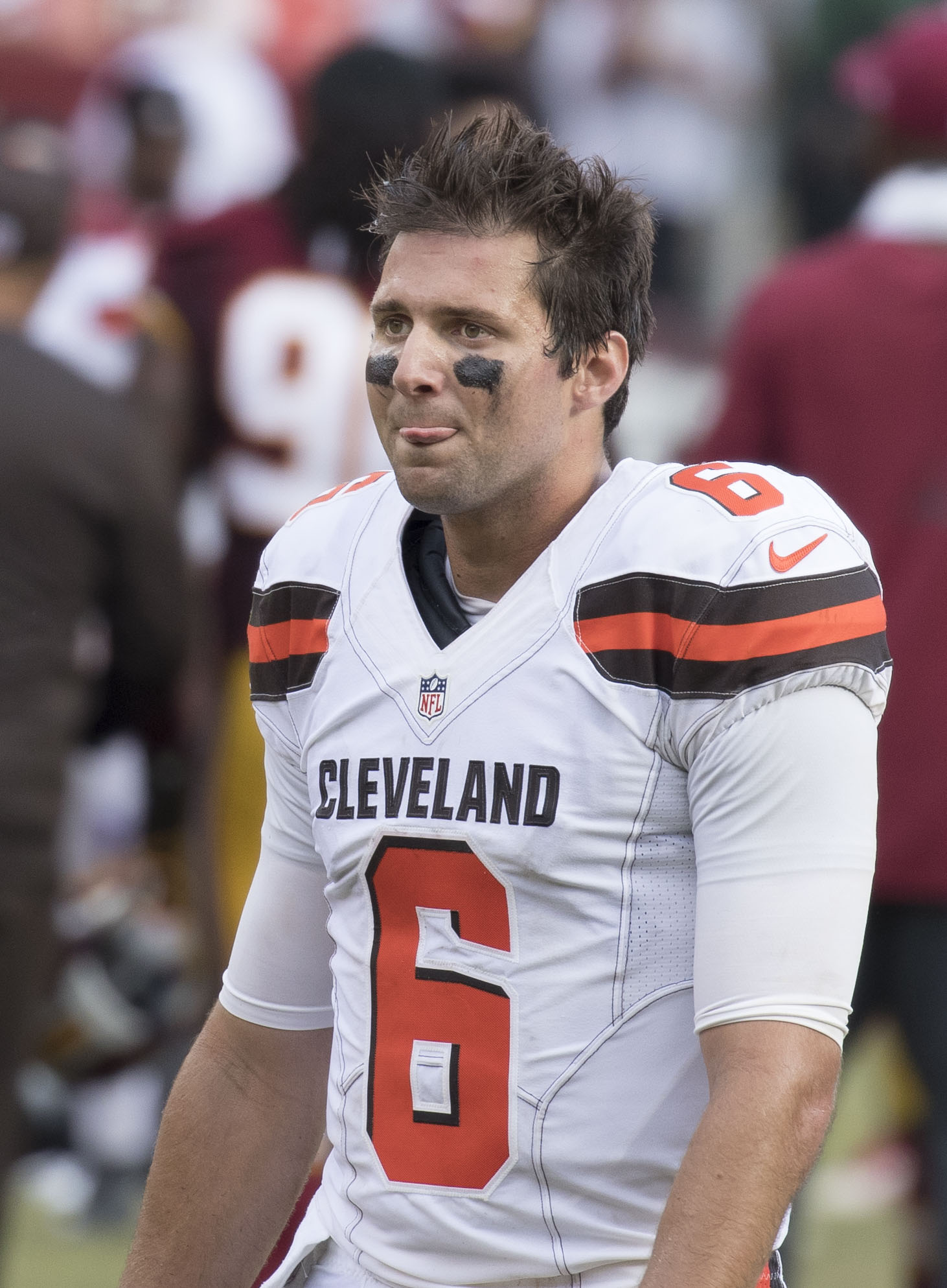 Browns at Redskins 10/2/16